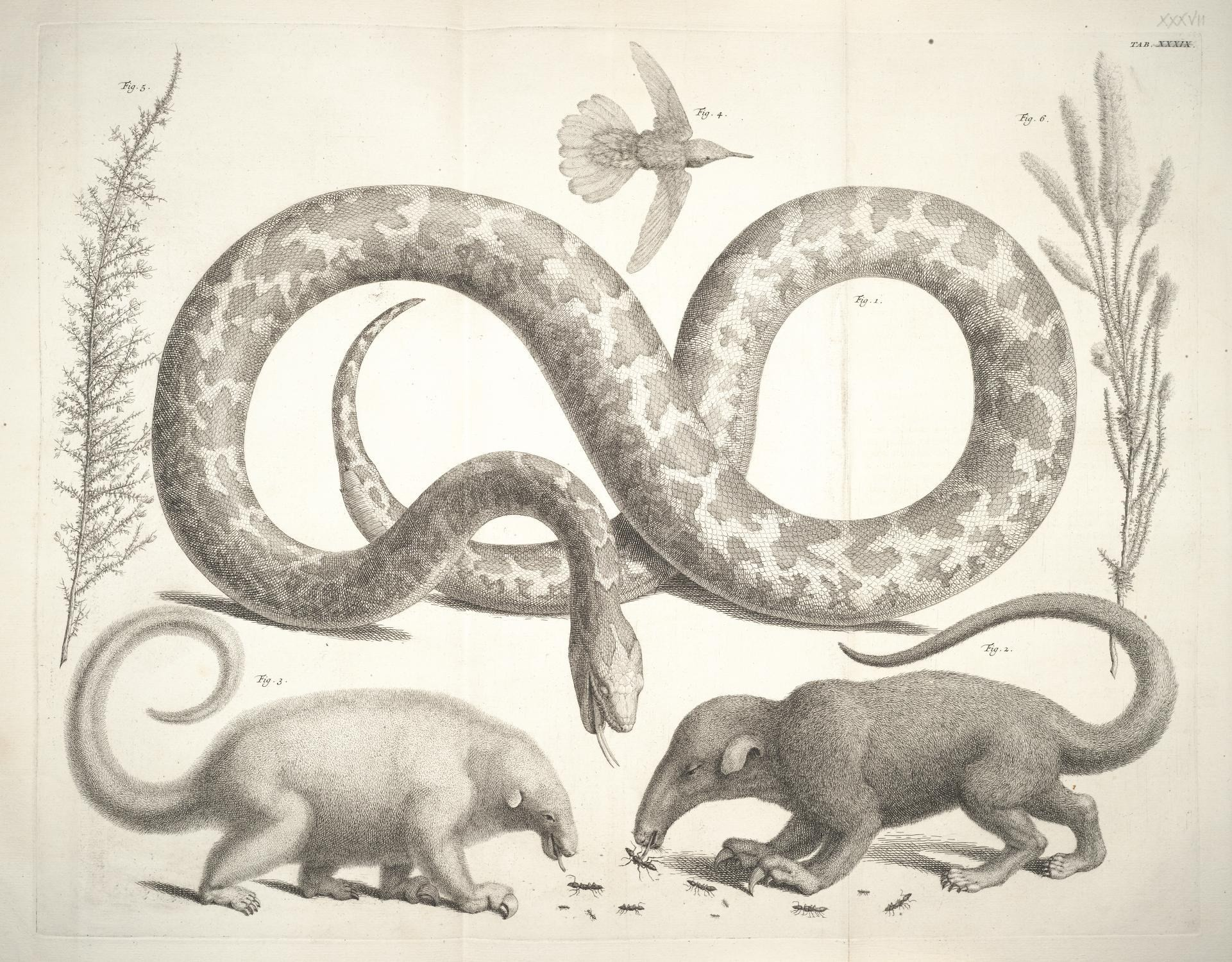 T^B . JCXXIK